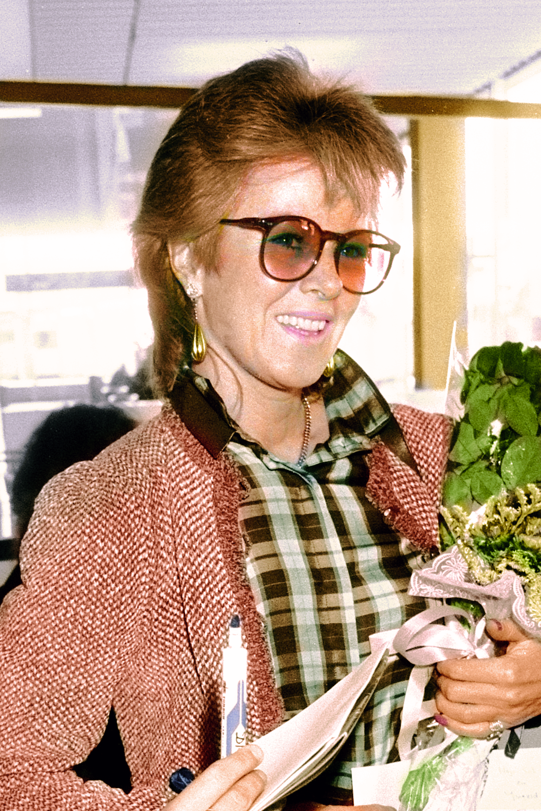 Colourised photo of Anni-Frid Lyngstad at the Amsterdam Schiphol Airport, October 1982.